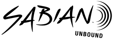 Logo of cymbal manufacturer Sabian.